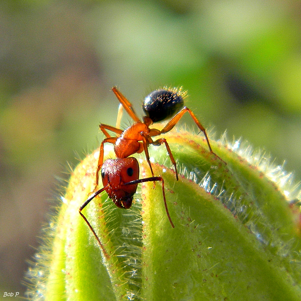 This Florida carpenter ant (Camponotus floridanus) loves her visits to The Sweet Factory! Not a bad job really, hanging out around flowers and buds all day sipping nectar. Or even harvesting honeydew from aphids! This species does not sting but can bite if you are rude or ironic towards them. The workers are all female! The short-lived males are rare and only used by the queen for reproduction. This ant was photographed, appropriately enough, at Sweetbay Natural Area and is on the bud of a native sleepy hibiscus (Hibiscus furcellatus).